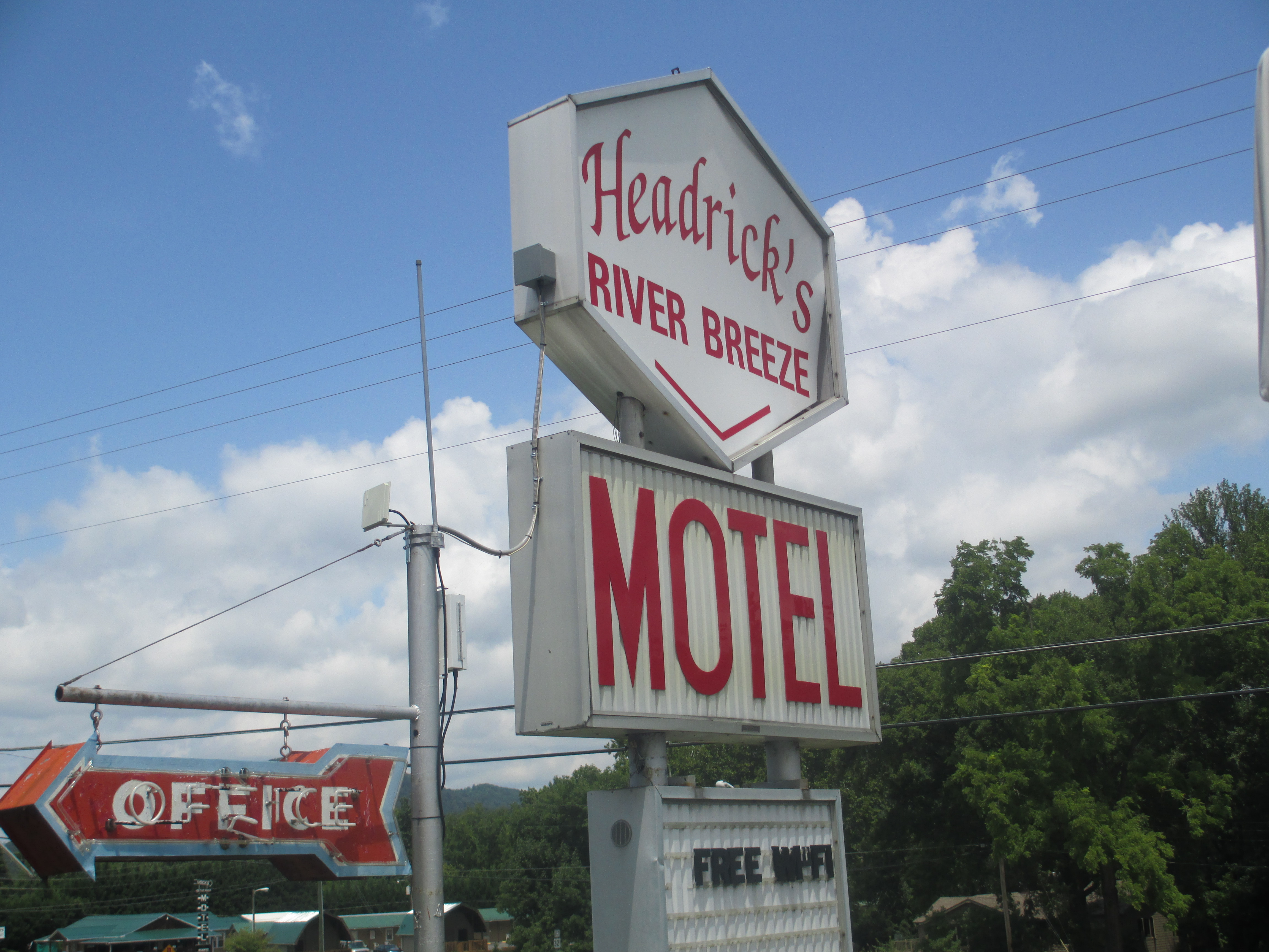 I took photo with Canon camera of Headrick's Motel in Townsend, TN, established 1979, locally-owned.